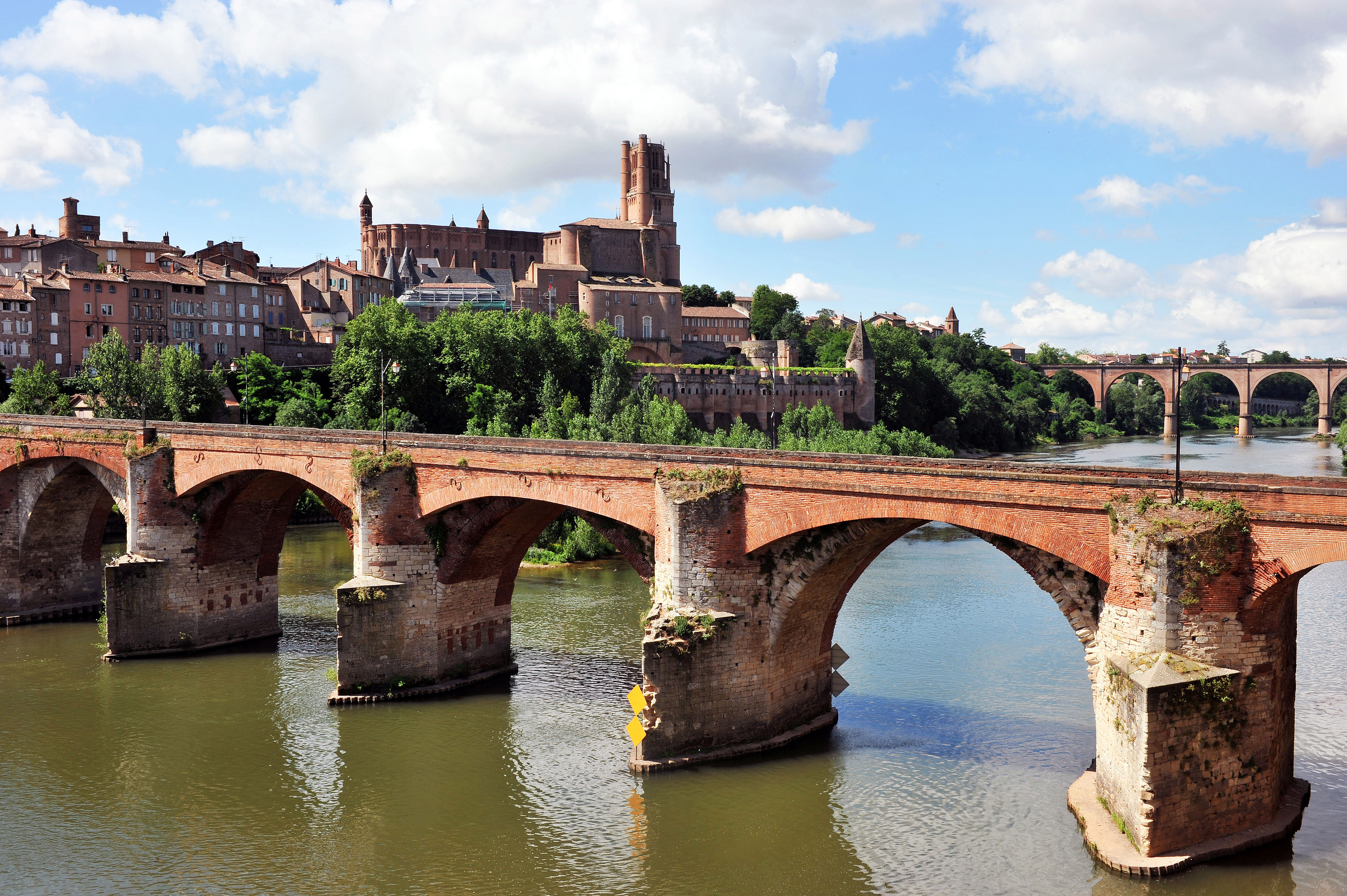 The Old Bridge (Pont Vieux) on the River Tarn, the Sainte Cécile Cathedral and the Palais de la Berbie